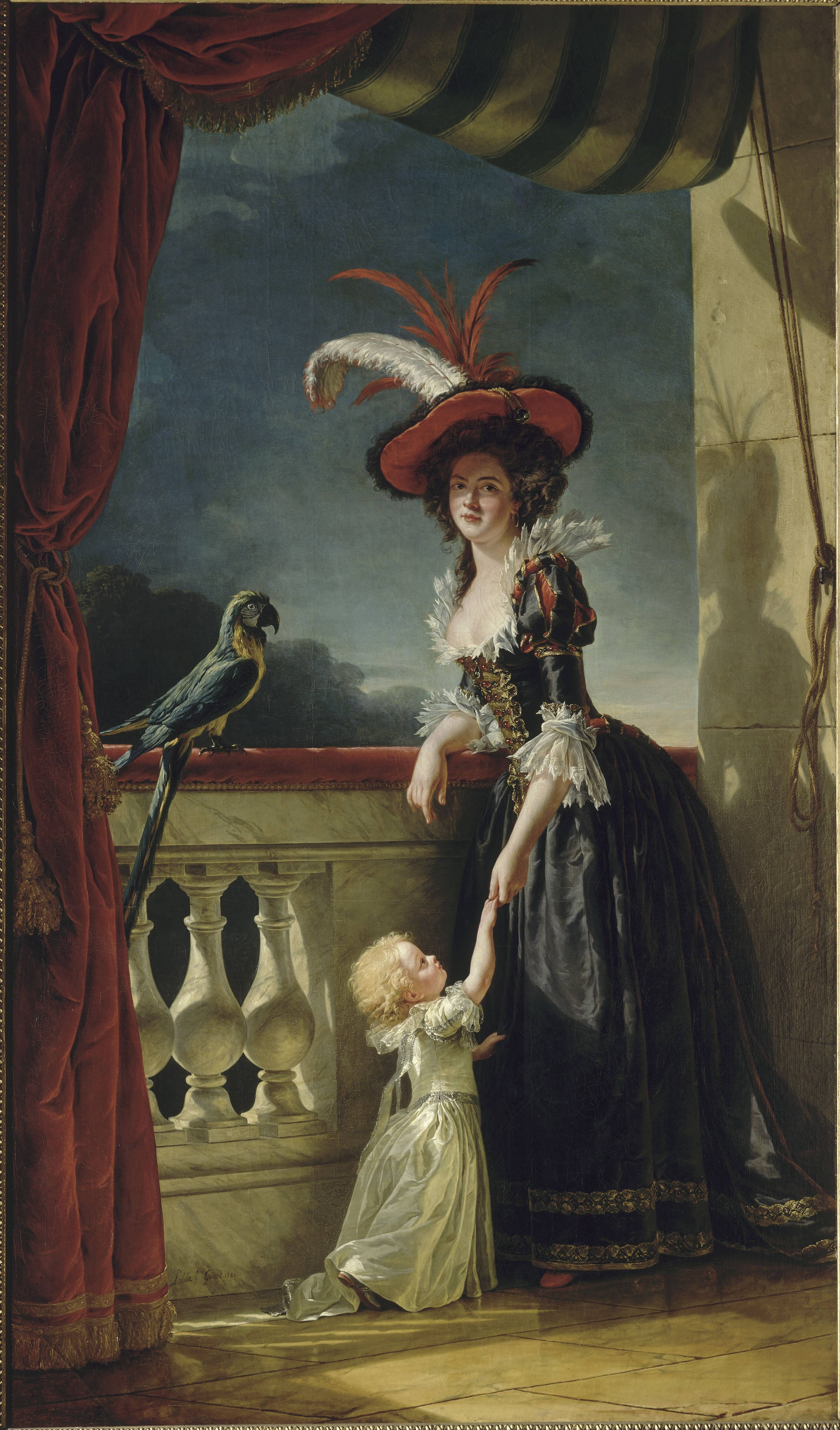 The portrait of Madame Louise-Elisabeth of France, Infante d'Espagne, Duchesse de Parme, was commissioned by King Louis XVI's aunts and it shows one of the daughters of Louis XV with her son. The shadows on her face and on the wall in back of her may simbolize death, in fact she died of a smallpox at the age thirty-two. Completed in 1788, one year after the commission, the picture idealizes its subject, who stands on a terrace in a relaxed, graceful pose, dressed in the low-cut and elaborately decorated costume popular in late eighteen-century.